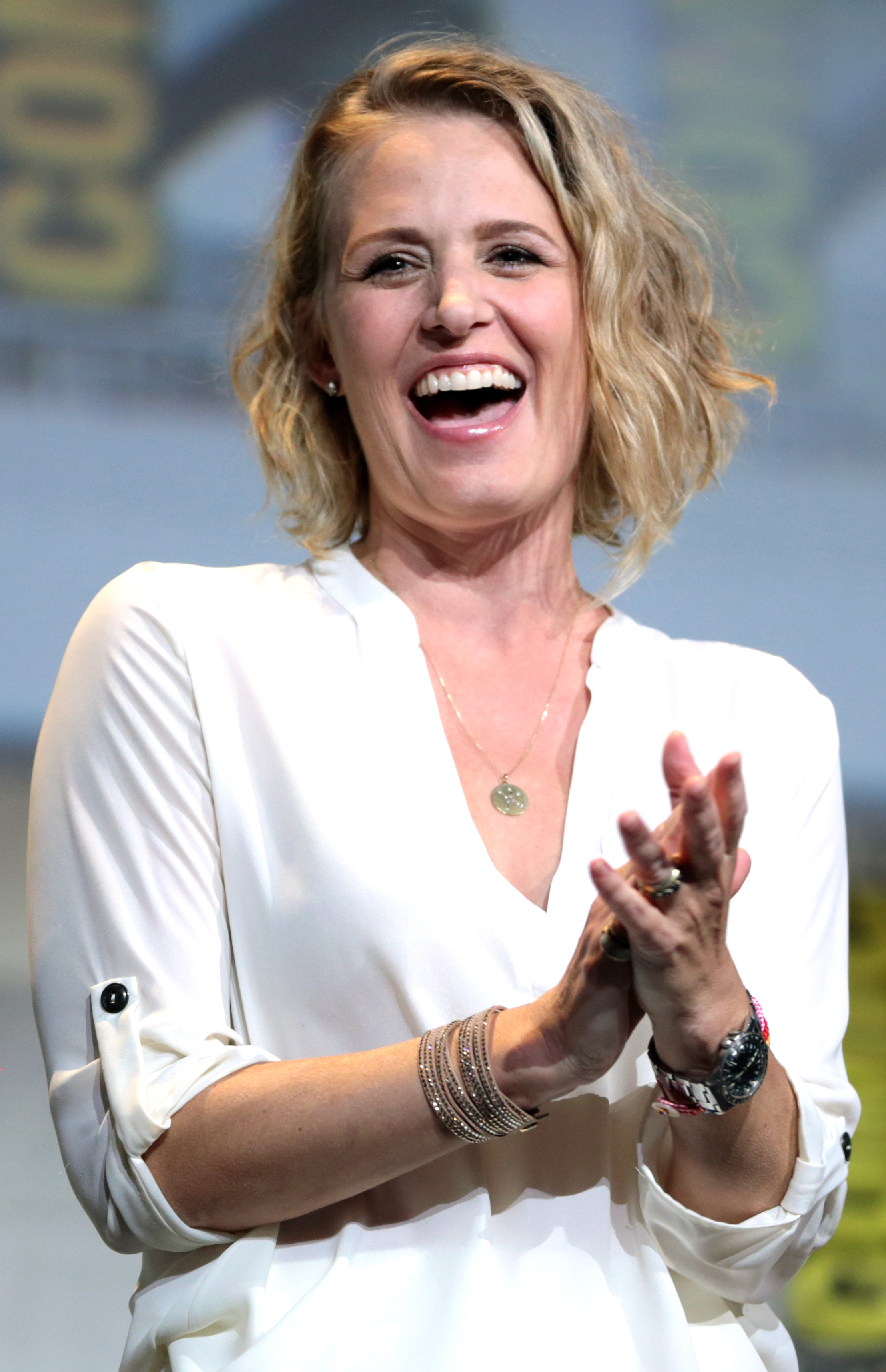 Samantha Smith speaking at the 2016 San Diego Comic-Con International in San Diego, California.